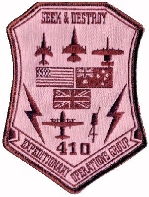 Emblem of the 410th Air Expeditionary Operations Group